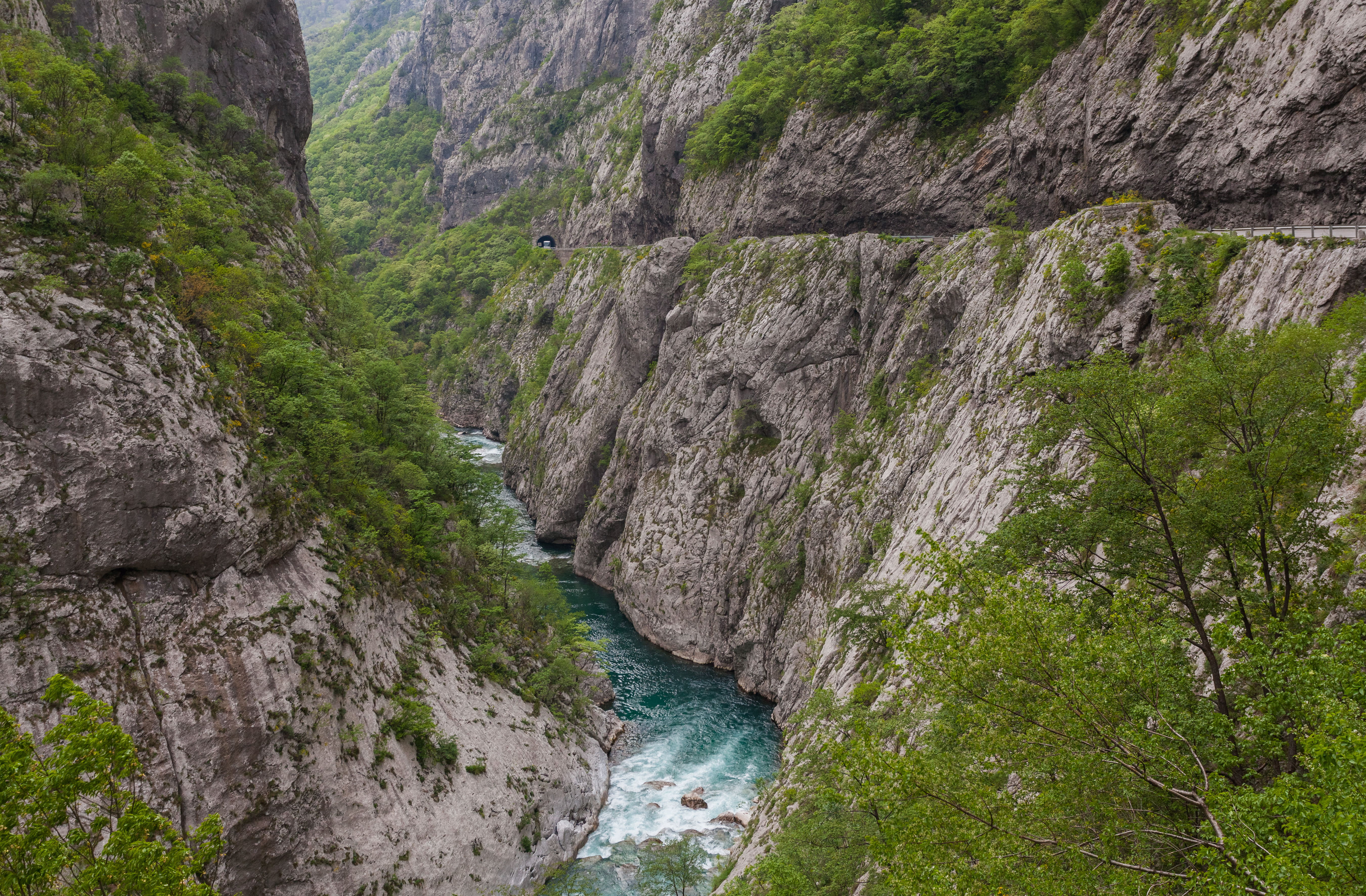 Moraca river, north of Podgorica, Montenegro